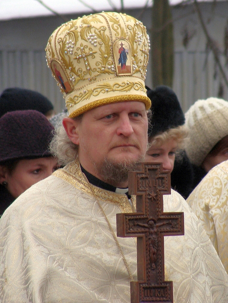 Jan Antonowicz